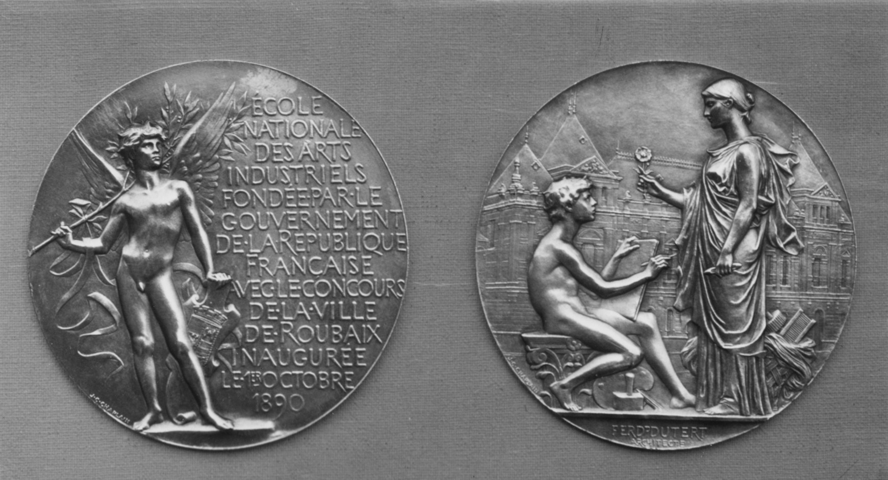 French; Medal; Medals and Plaquettes